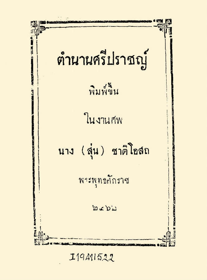 Title page of the book The Legend of Si Prat, by Phraya Pariyattithammathada. Scanned by the Office of Academic Resources, Chulalongkorn University (rare book collection).